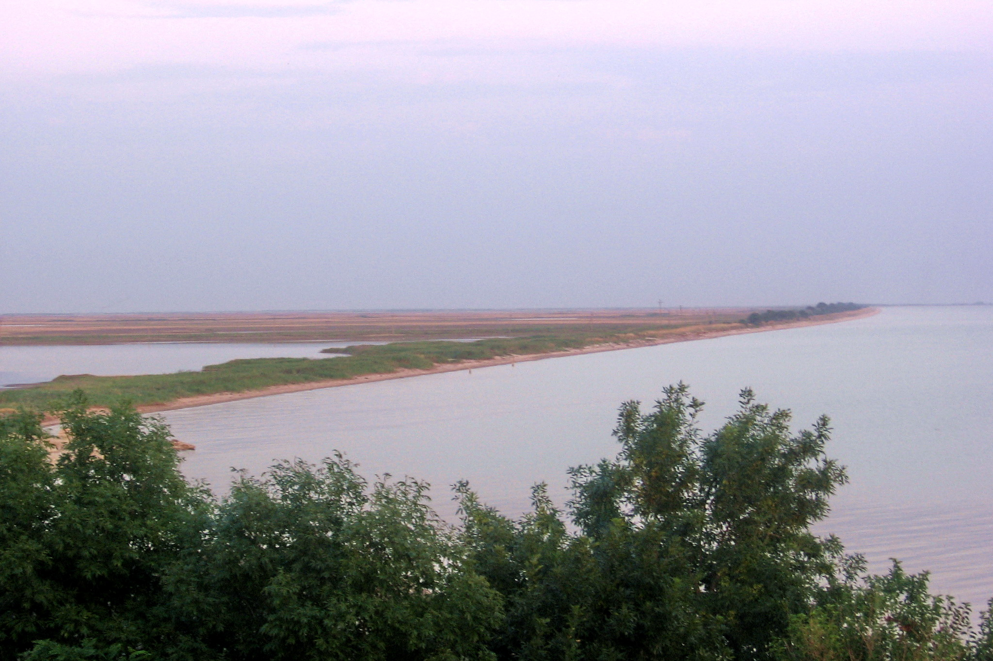 Jasenskaya foreland on Azov sea